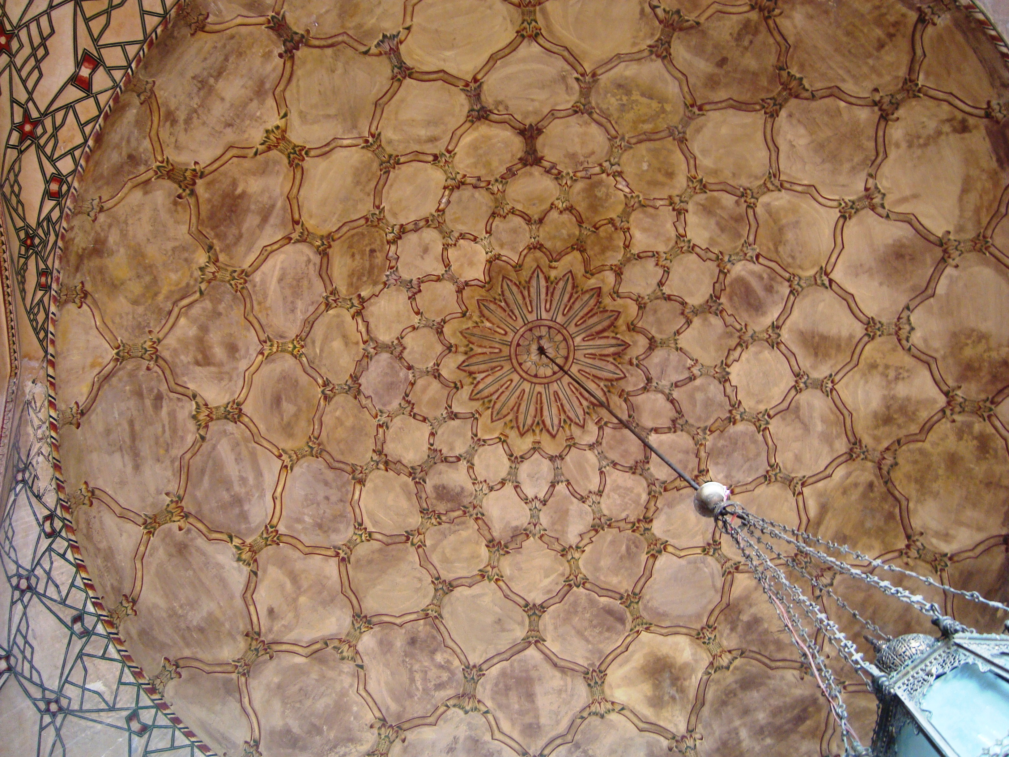 Badshahi Mosque (King’s Mosque) This is a photo of a monument in Pakistan identified as the PB-44